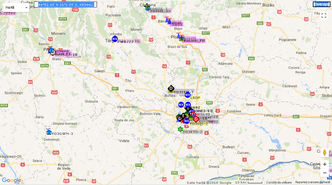 APRS objects on map